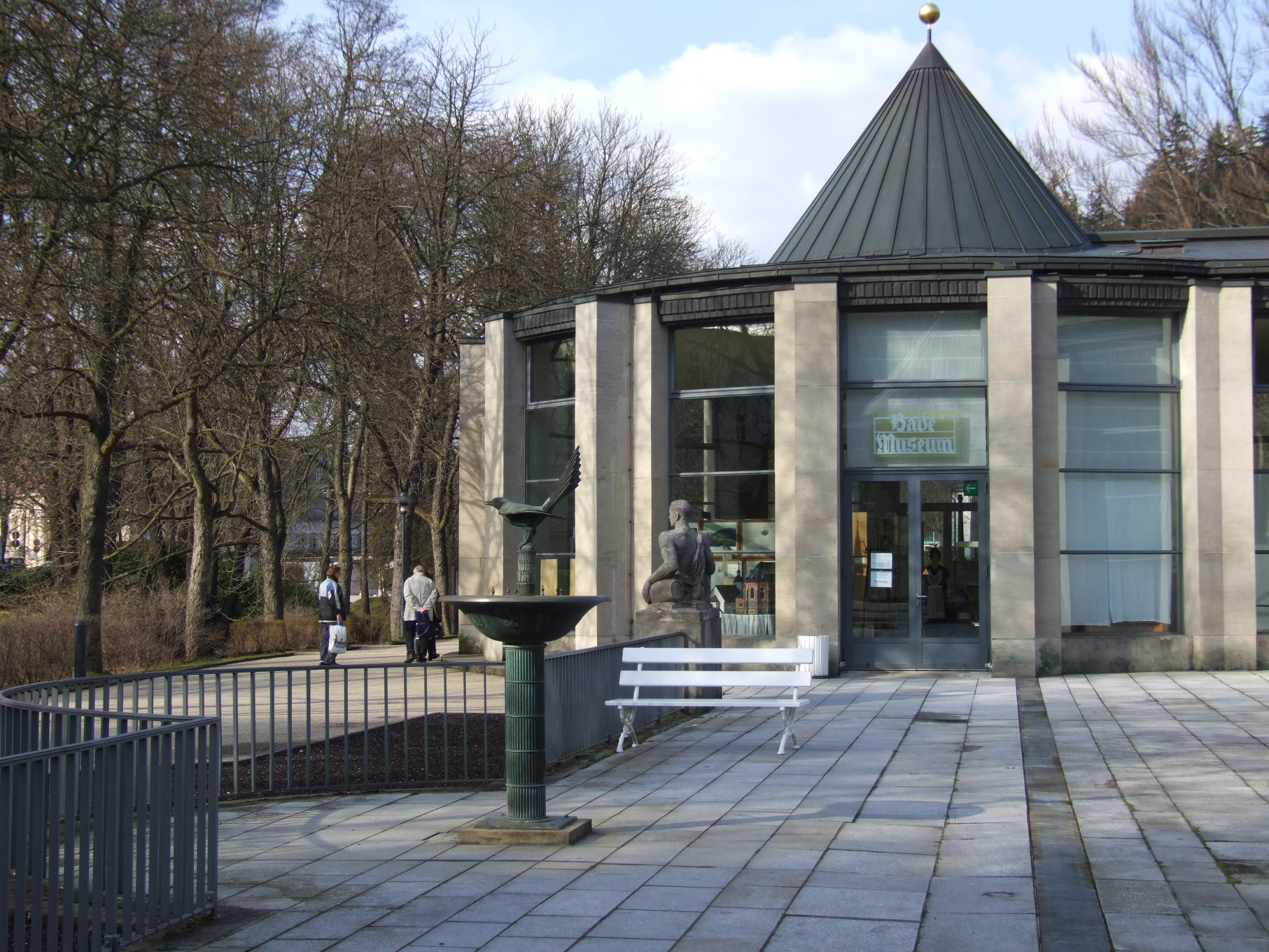 Sculpture of a Magpie, the symbol of the town, outside the Bademuseum and Moritzquelle. Sculpture made by German sculptor Otto Pilz around 1929.